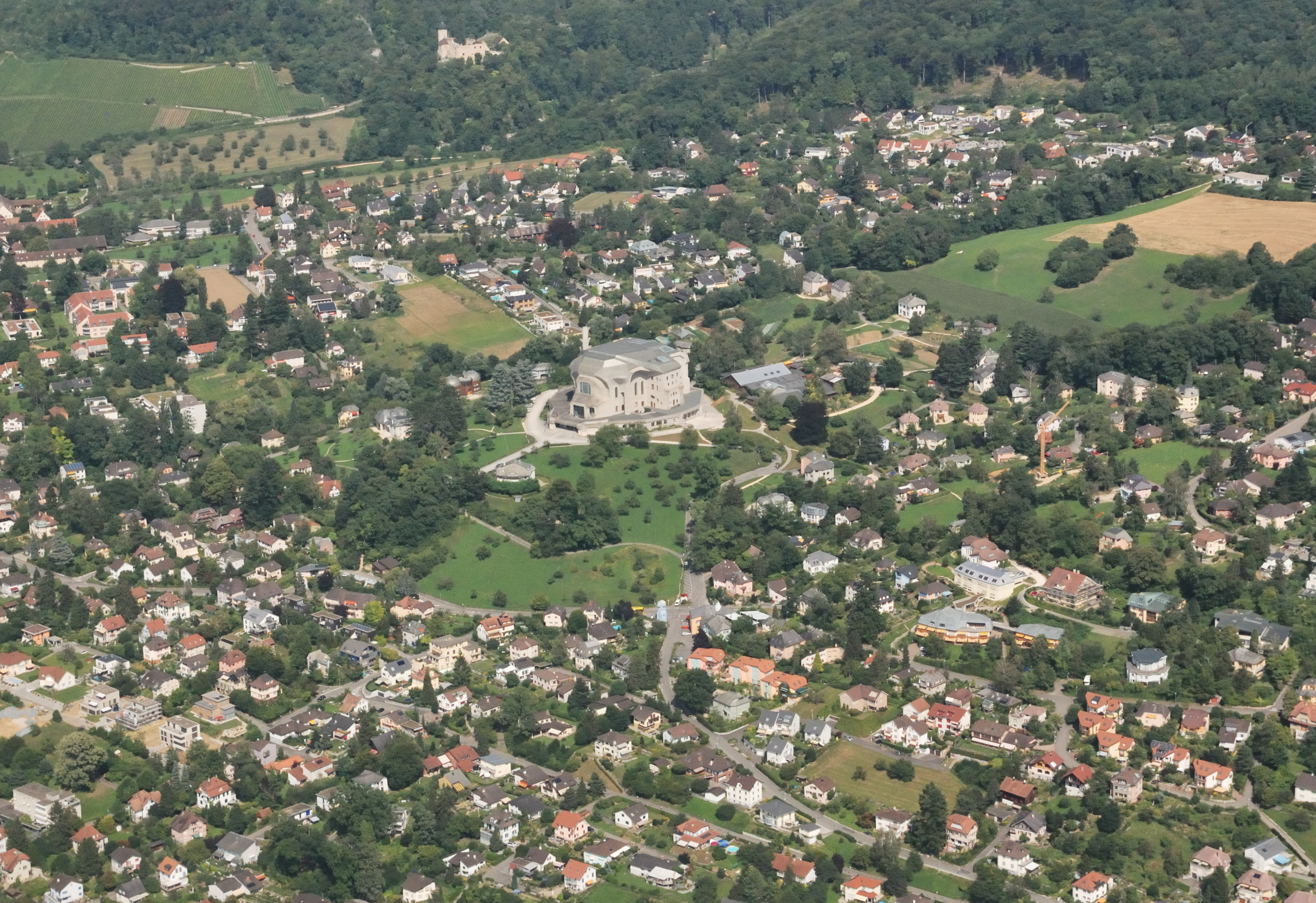 aerial view of the hill of Dornach and Goetheanum